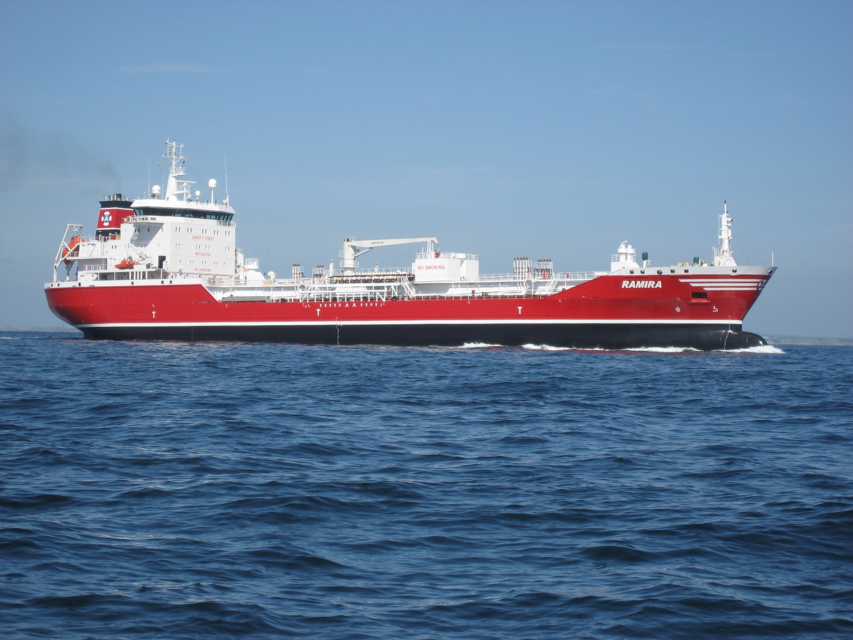 Ramira älvtank